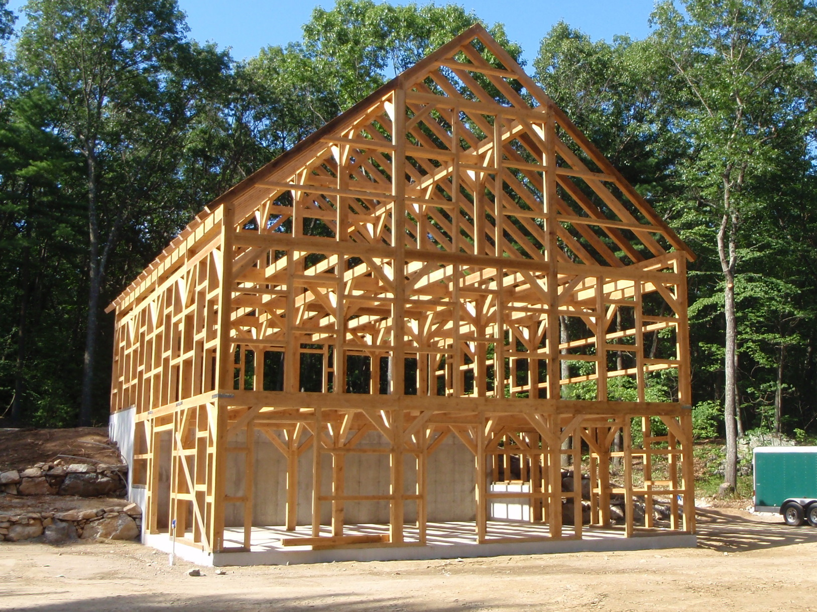 A rough-sawn hemlock timber frame horse barn located in Weston, MA (USA) just after it was raised.